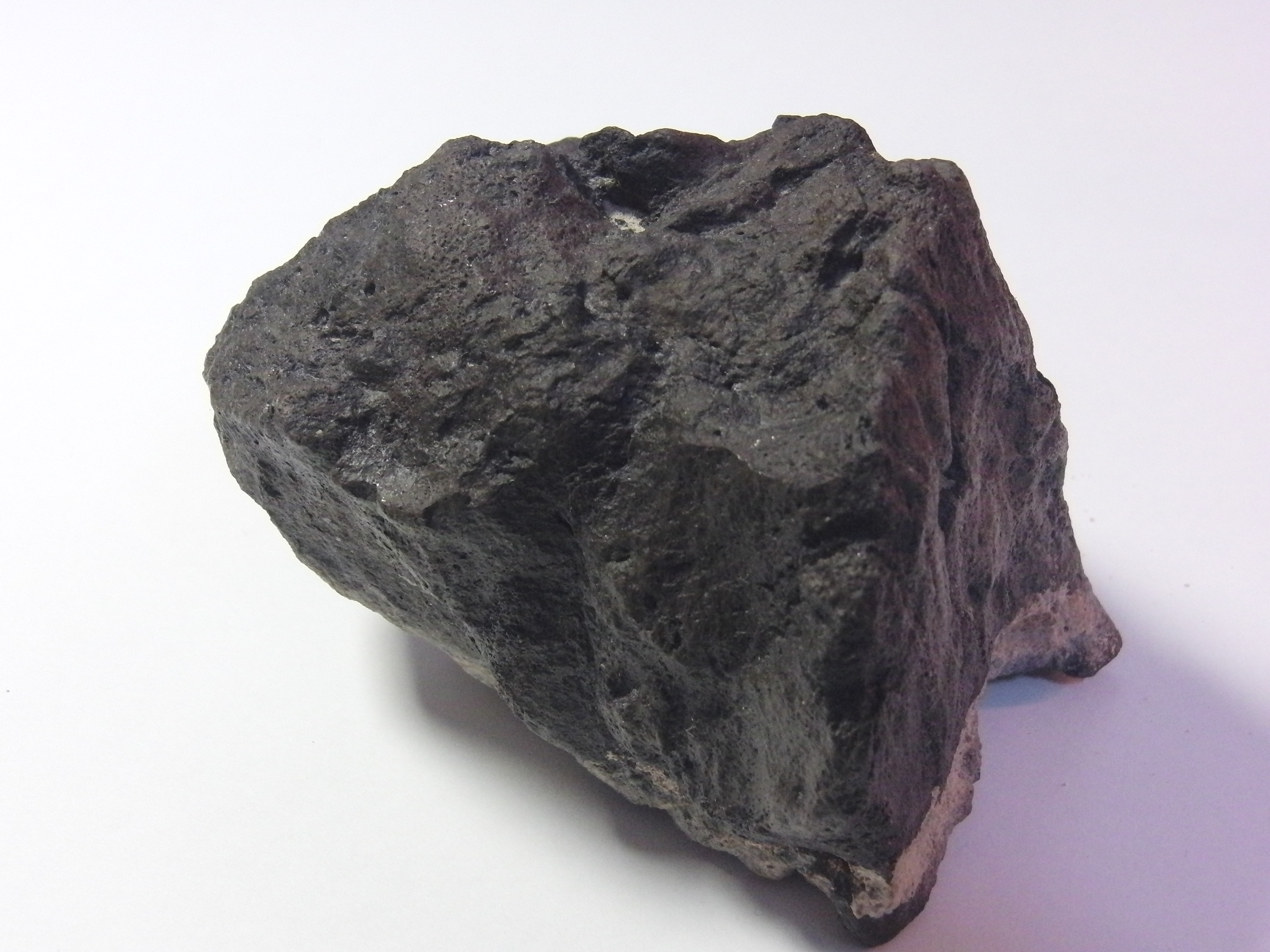 Coolled lava (from Saline Valley, California)